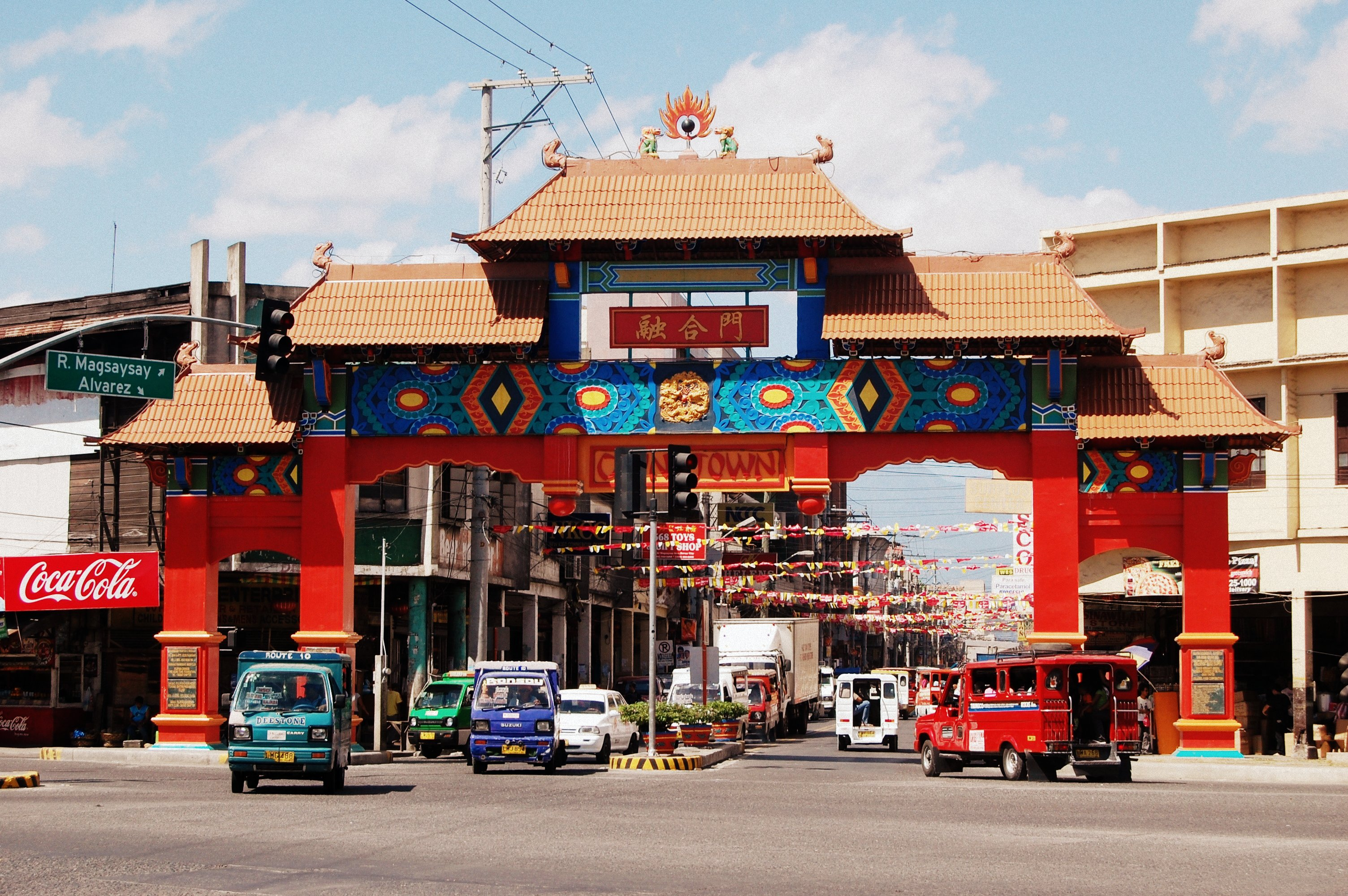 Davao City's Chinatown is said to be the Philippines' biggest in terms of land area. Just across its welcome gate is Magsaysay Park and its stalls of durian, marang, pomelo, mangosteen, and rambutan. Nikon D40 (RDC PSRs 3rd National Conference, February 2010)